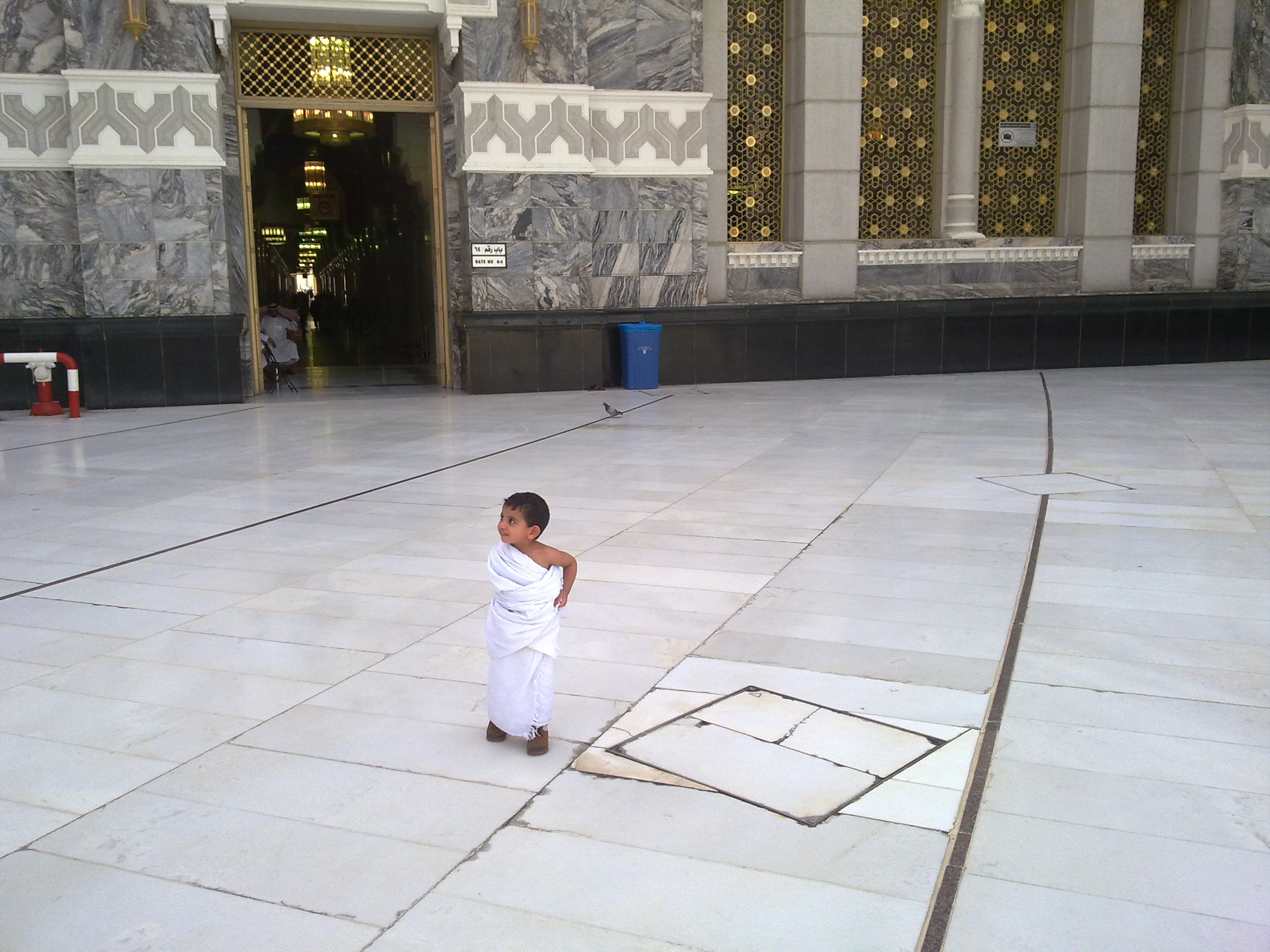 A child wearing an Ihram